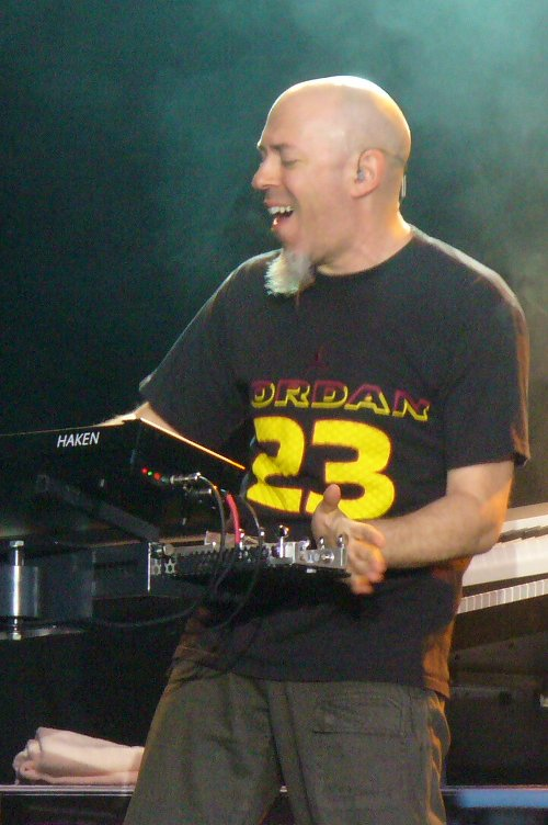 Jordan Rudess in Concert with Dream Theater